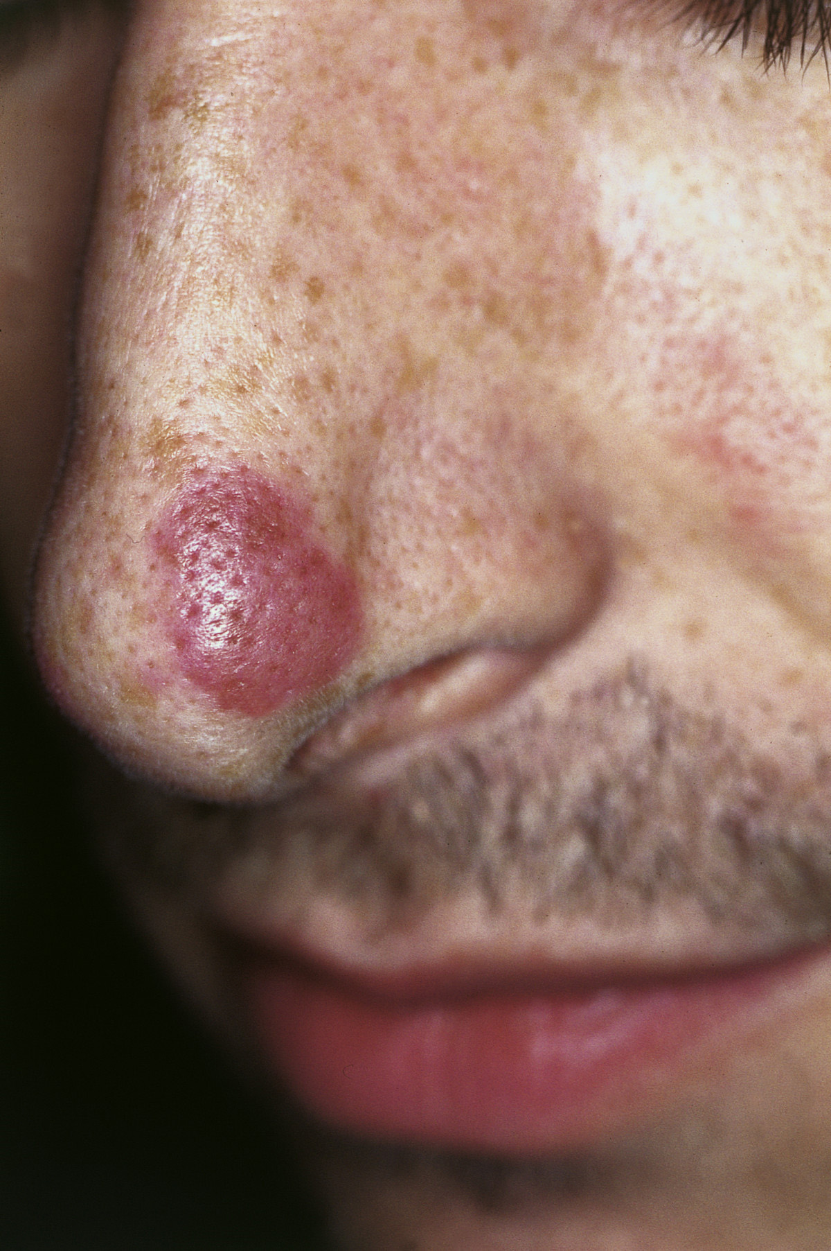 Facial eosinophilic granuloma. Red-brown nodule on the nose. Clearly visible follicular structures ("peau d'orange").